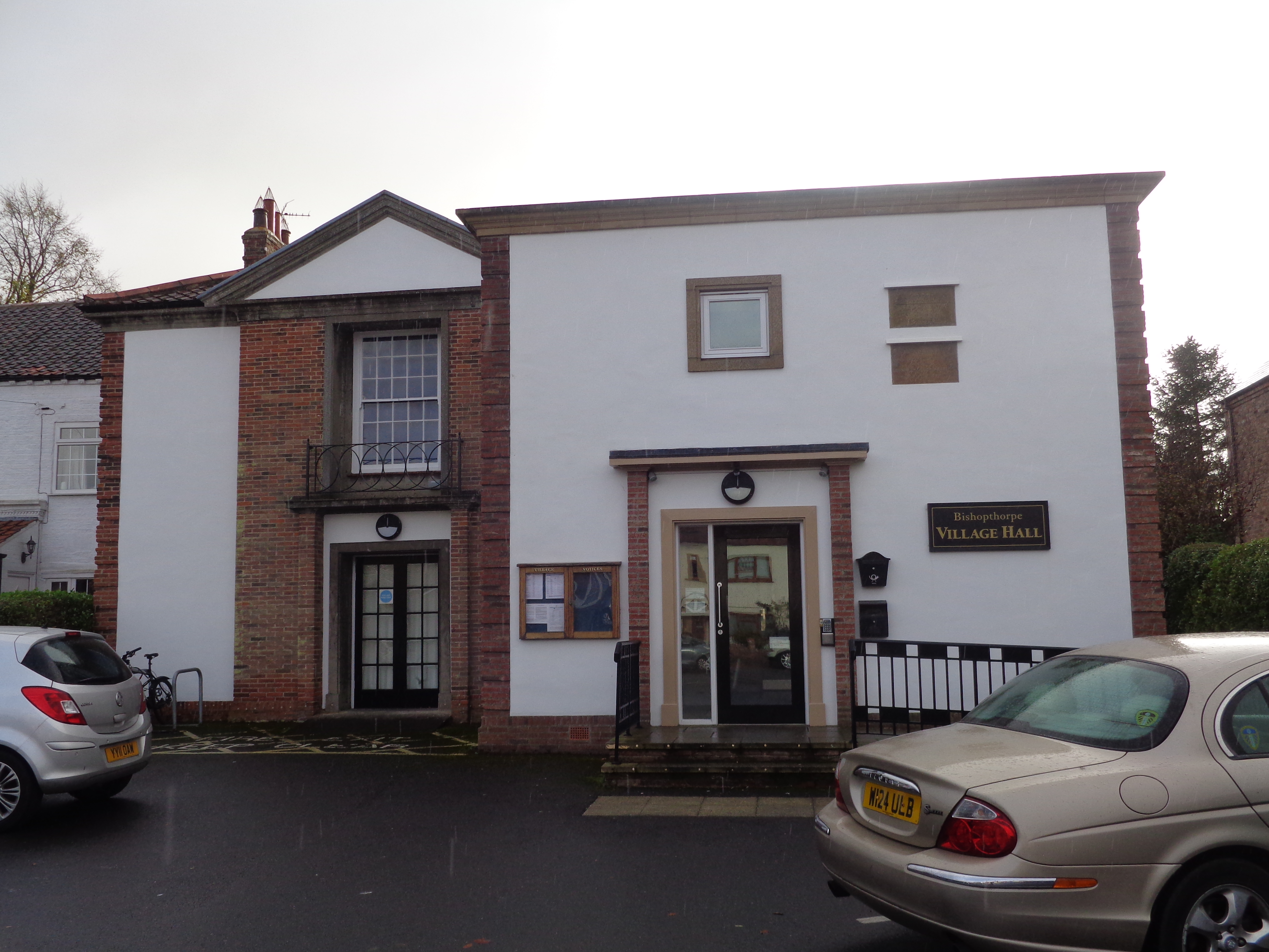 Bishopthorpe Village Hall, Main Street, Bishopthorpe, York, North Yorkshire. Taken on the afternoon of Friday the 4th of November 2016.